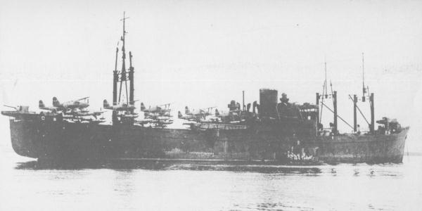 Japanese seaplane tender "Kimikawa-maru" at Ominato.